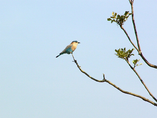 This Indian Roller (Coracias benghalensis) was hunting for food in the fields